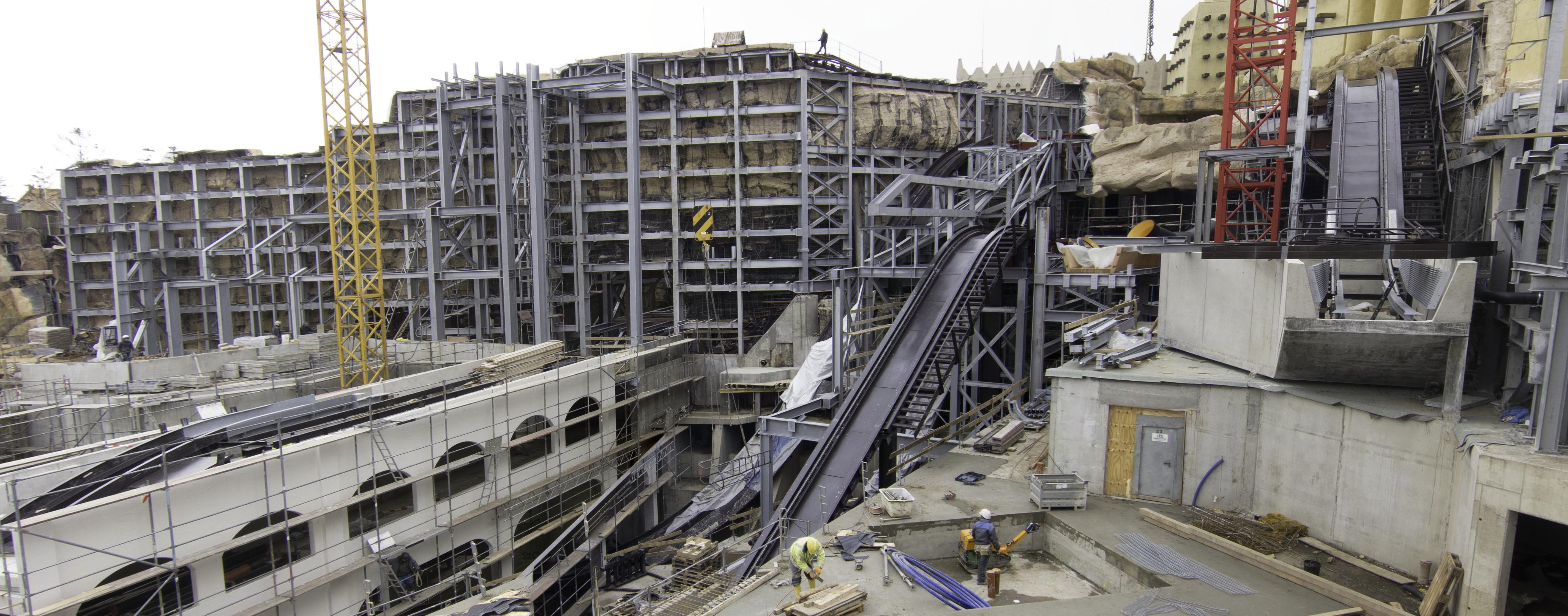 Construction site of log flume ride Chiapas at Phantasialand, Brühl, Germany on seasons opening 23. March 2013